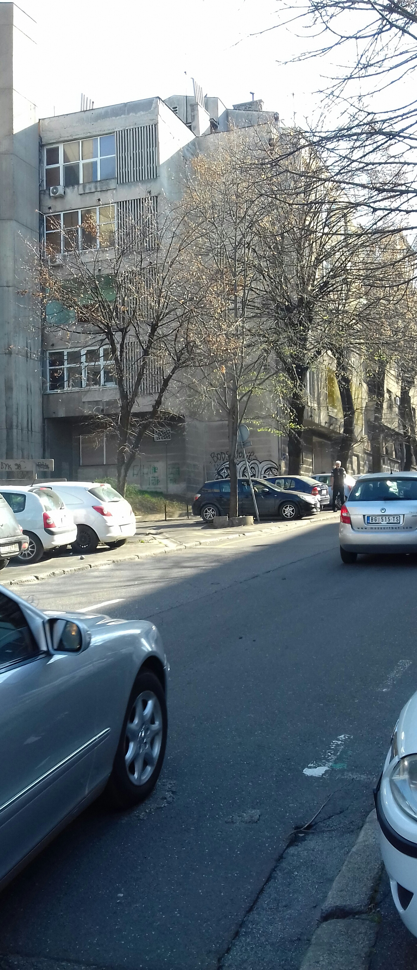 View on Milana Kasanina street from the Bulevar despota Stefana street, Belgrade, Serbia Srpski (latinica): Pogled na ulicu Milana Kasanina iz ulice Bulevar despota Stefana u Beogradu, Srbija